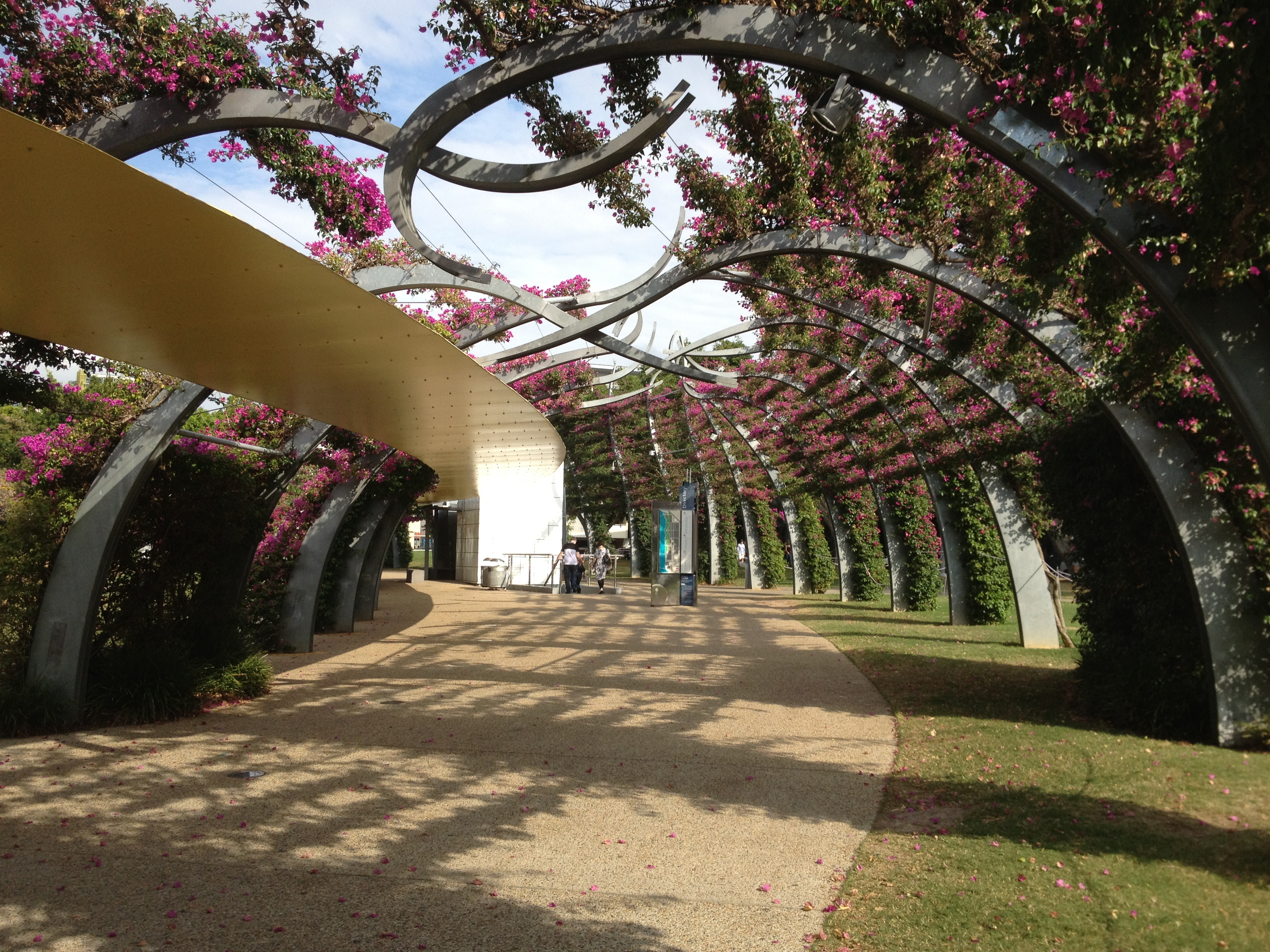 South Bank Parklands, South Bank, Queensland